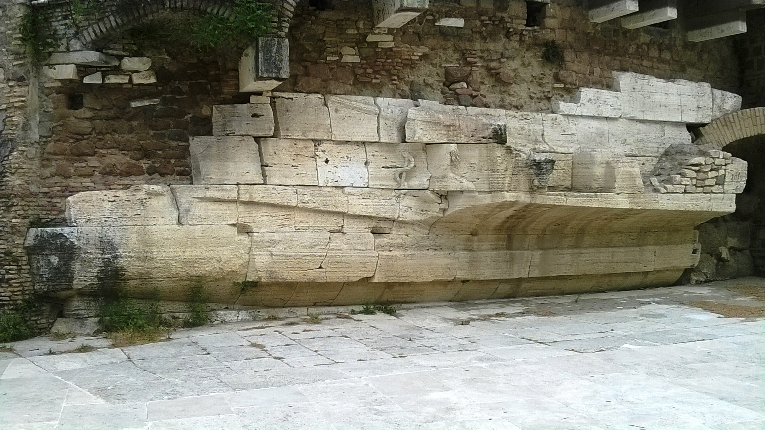 According to Coates (2004) this ship would be a "five" or "six".